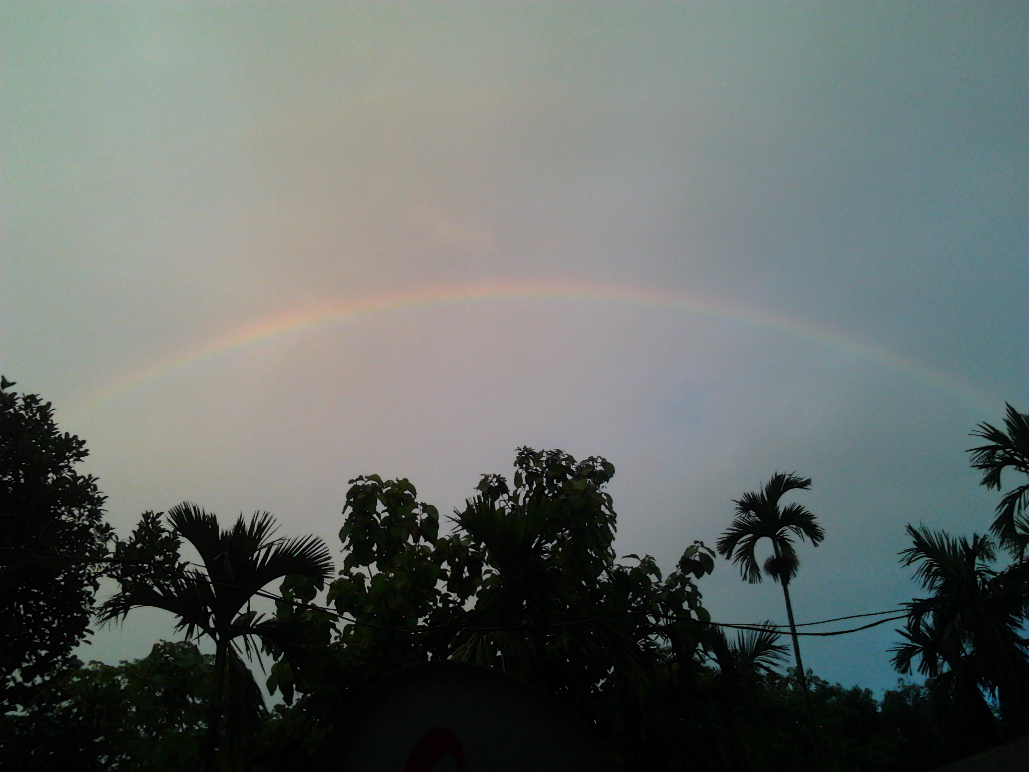 A rainbow in Harisinga